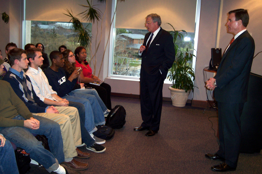 James Madison University President Linwood Rose introduces Governor Mark Warner to over 100 members of the JMU College Democrats.